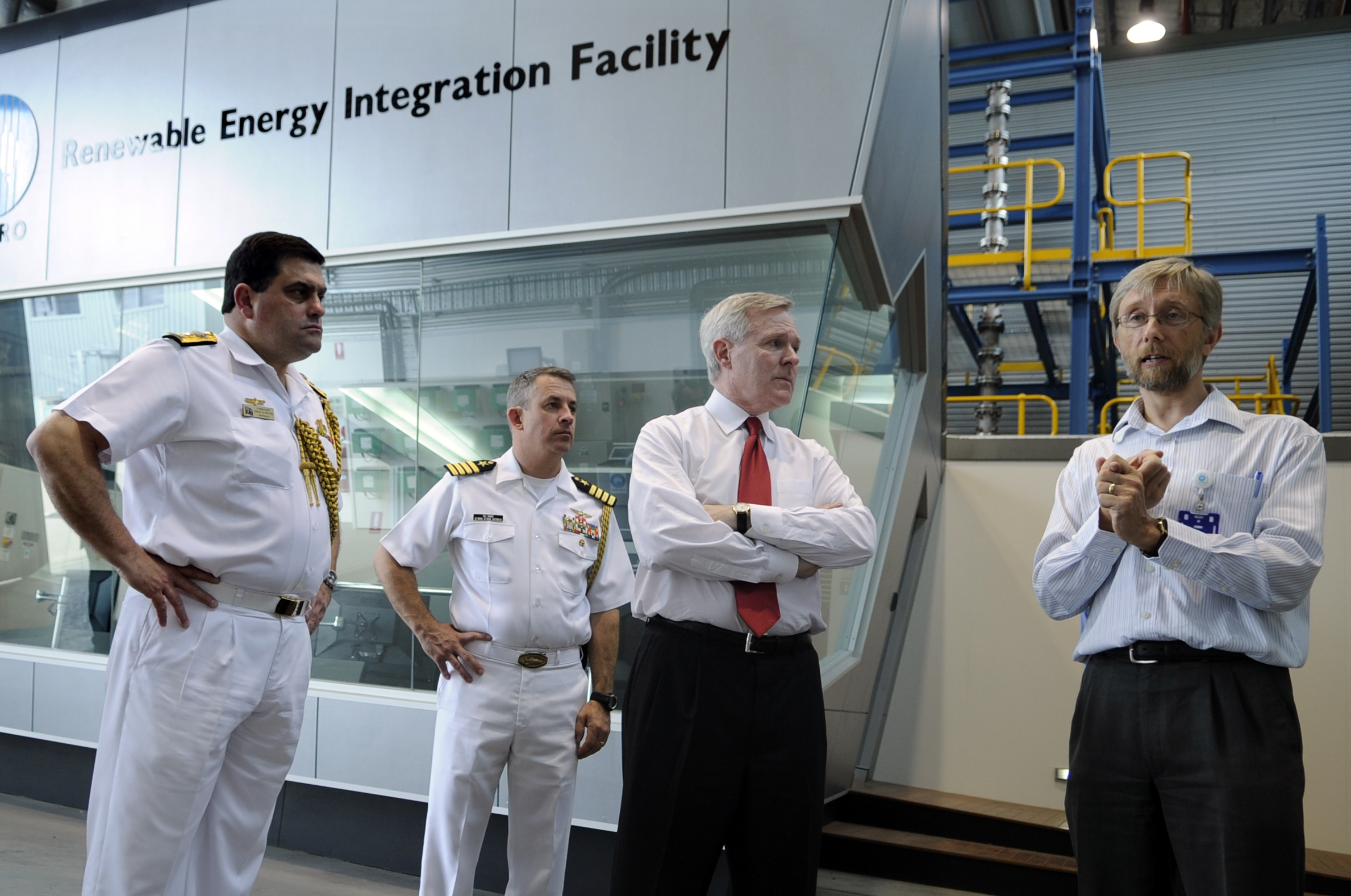 NEWCASTLE, Australia (Jan. 28, 2010) Secretary of the Navy (SECNAV) the Honorable Ray Mabus tours the Commonwealth Scientific and Industrial Research Organization energy center in Newcastle, Australia. (U.S. Navy photo by Mass Communication Specialist 2nd Class Kevin S. O'Brien/Released)